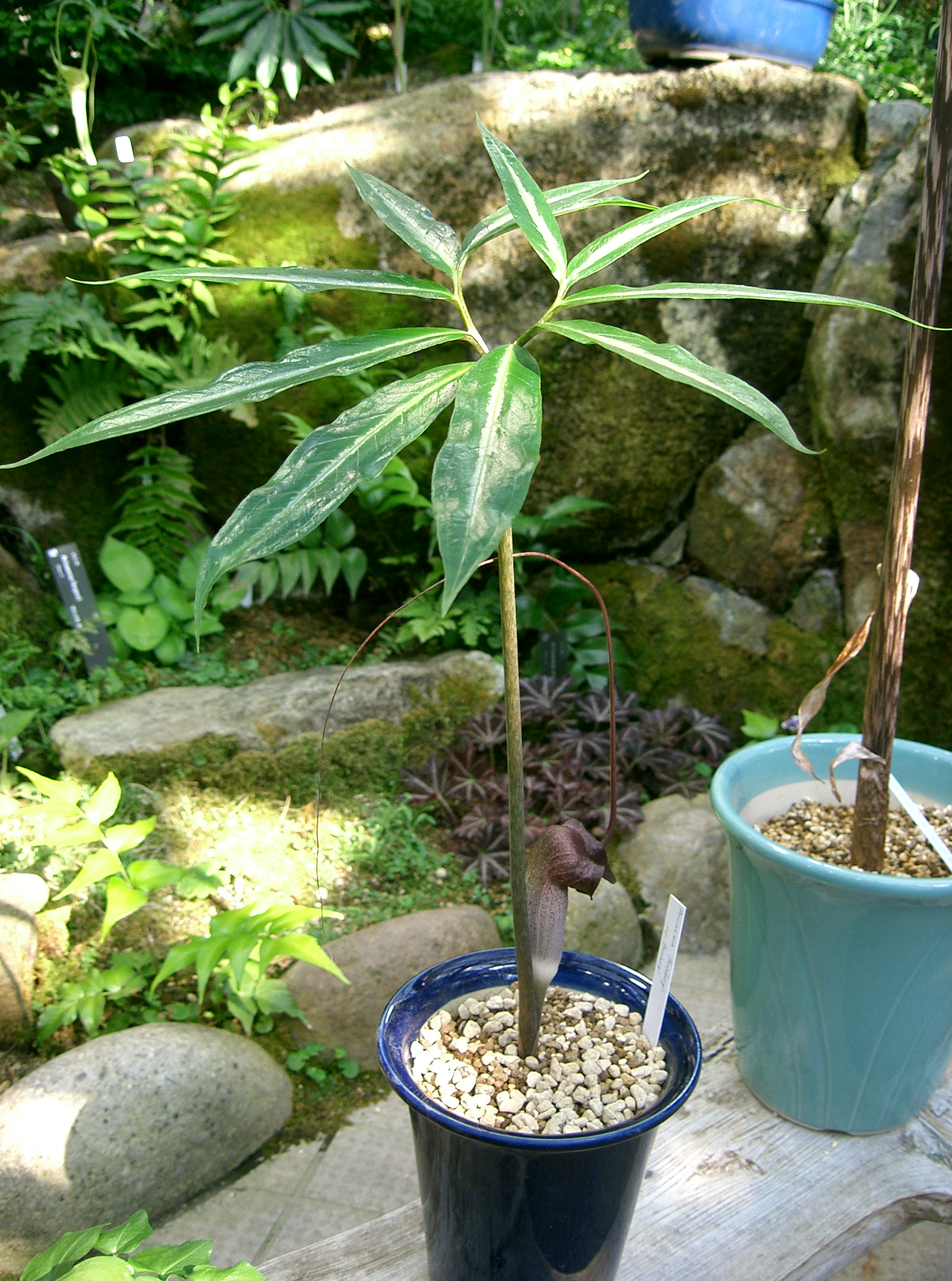 Scientific name Arisaema thunbergii subsp. thunbergii